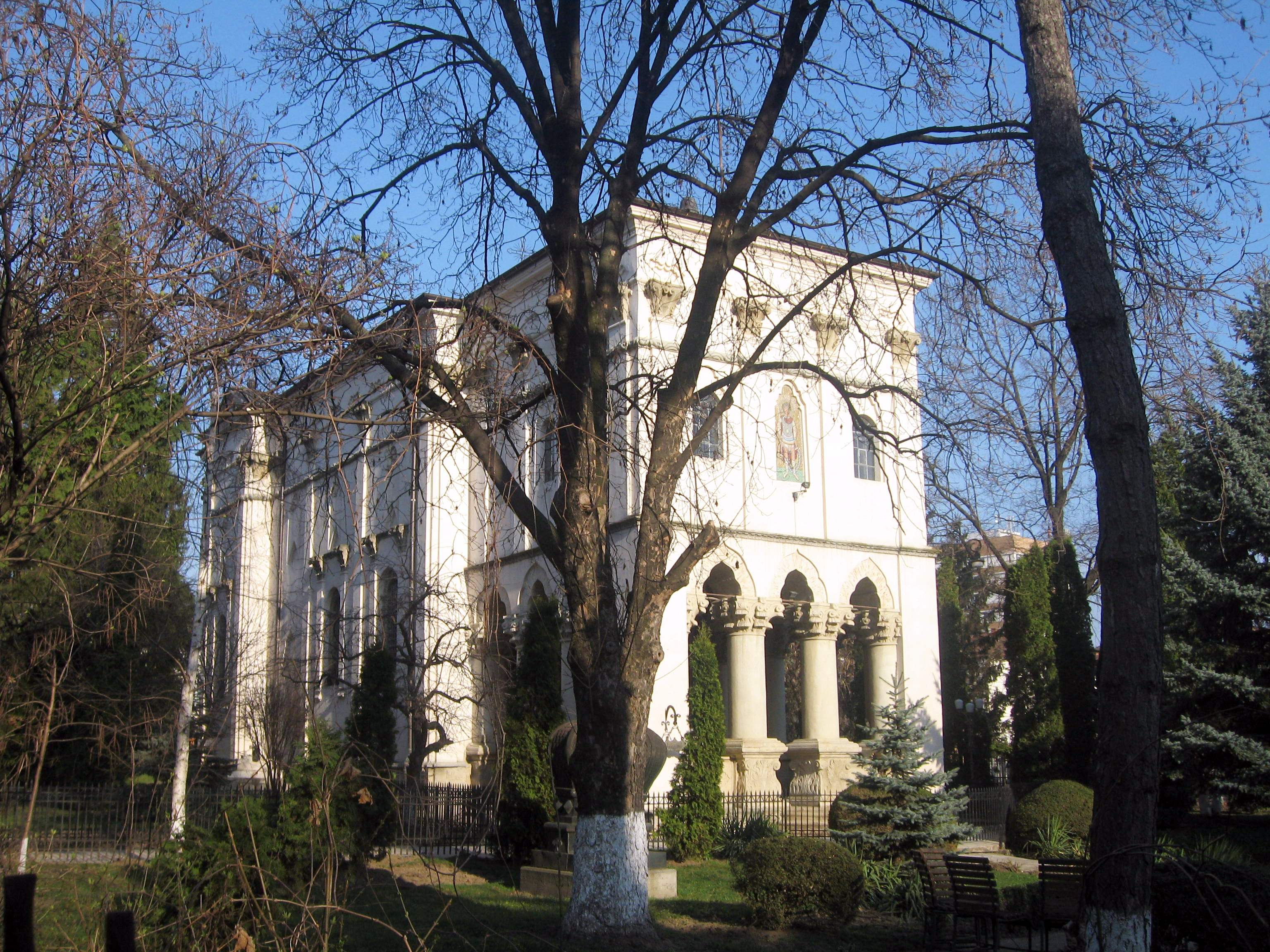 St.George Church in Iași (old Metropolitan Cathedral)